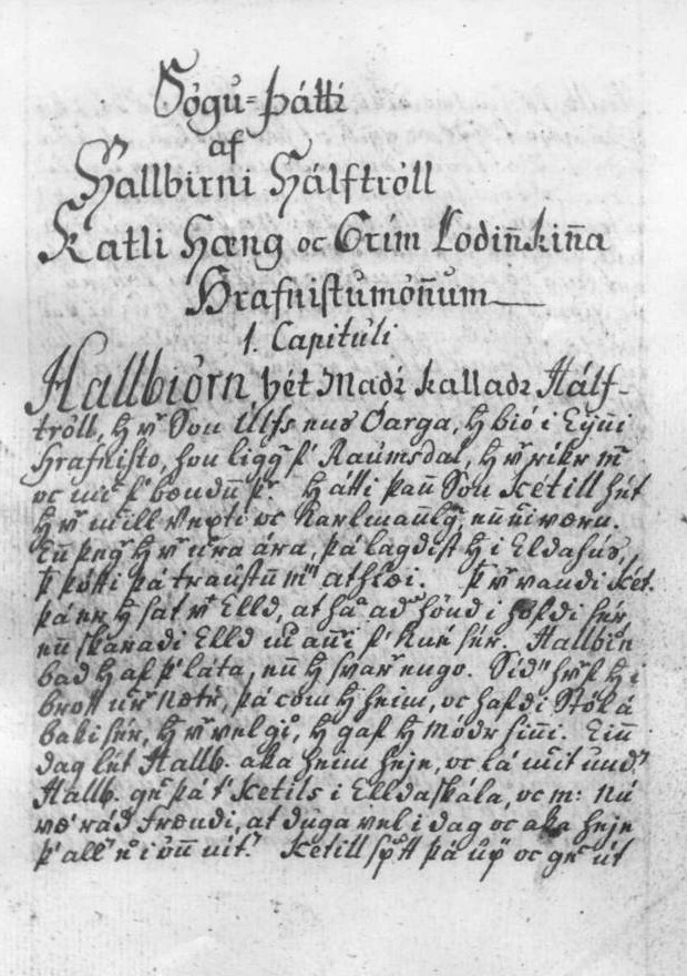 Ketils saga hoengs (XIV Century)